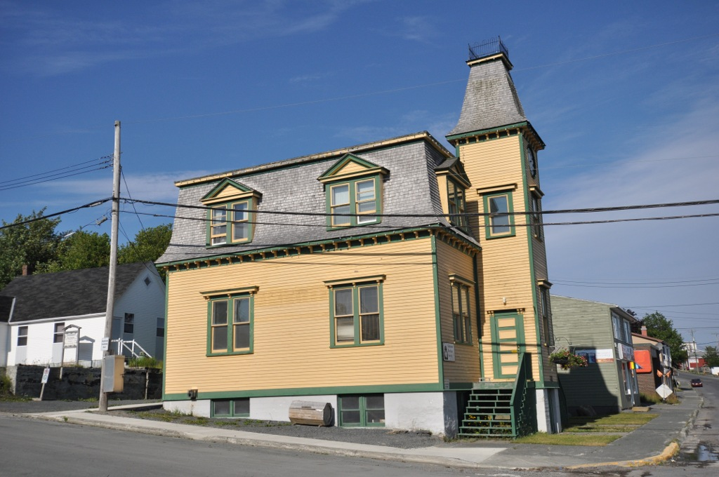 Old Carbonear Post Office, Carbonear, Newfoundland. Now a museum.